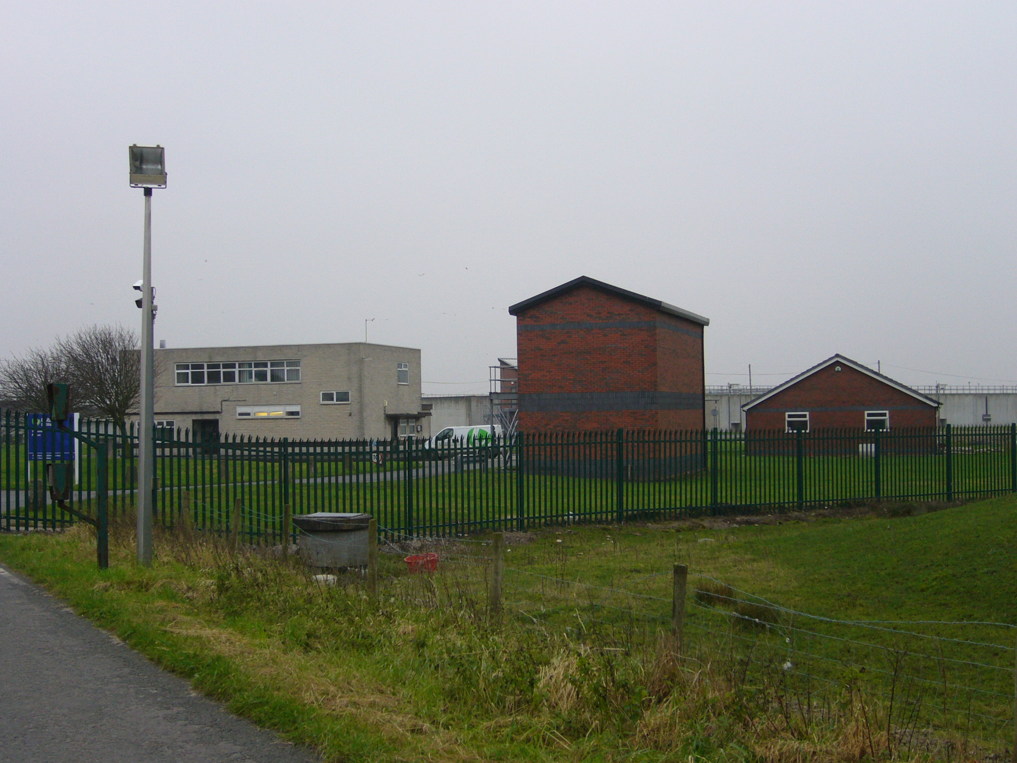 The wastewater treatment works (Apparently they are not called "sewage works" any more!) serving Preston, Lancashire viewed from grid reference SD 4562 2843 looking south-southwest in Clifton. It is operated by United Utilities.